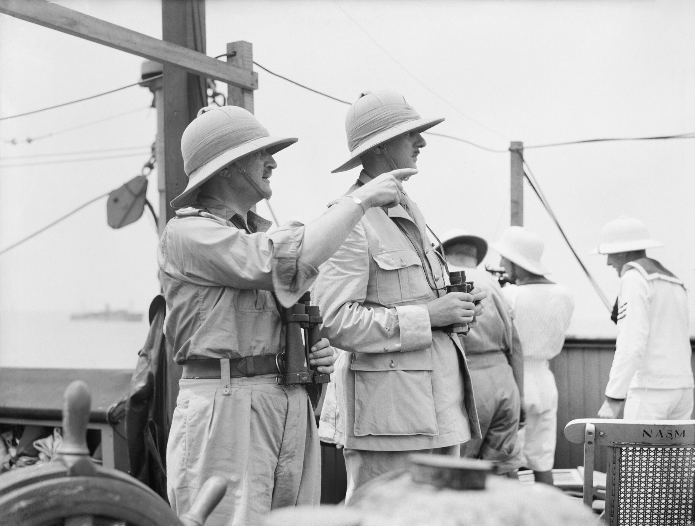 Dakar Operations. September 1940, on Board Ss Westernland, during Voyage. General de Gaulle and General Spears on the bridge of SS WESTERNLAND during operations.